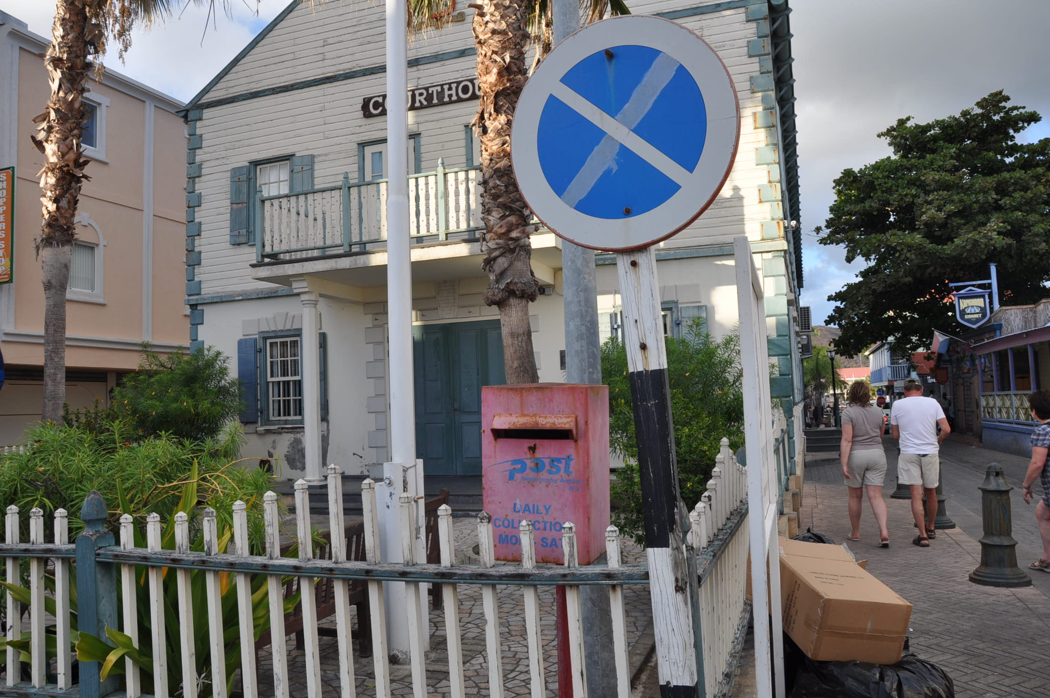 A postbox where one can drop off mail on Dutch St. Maarten